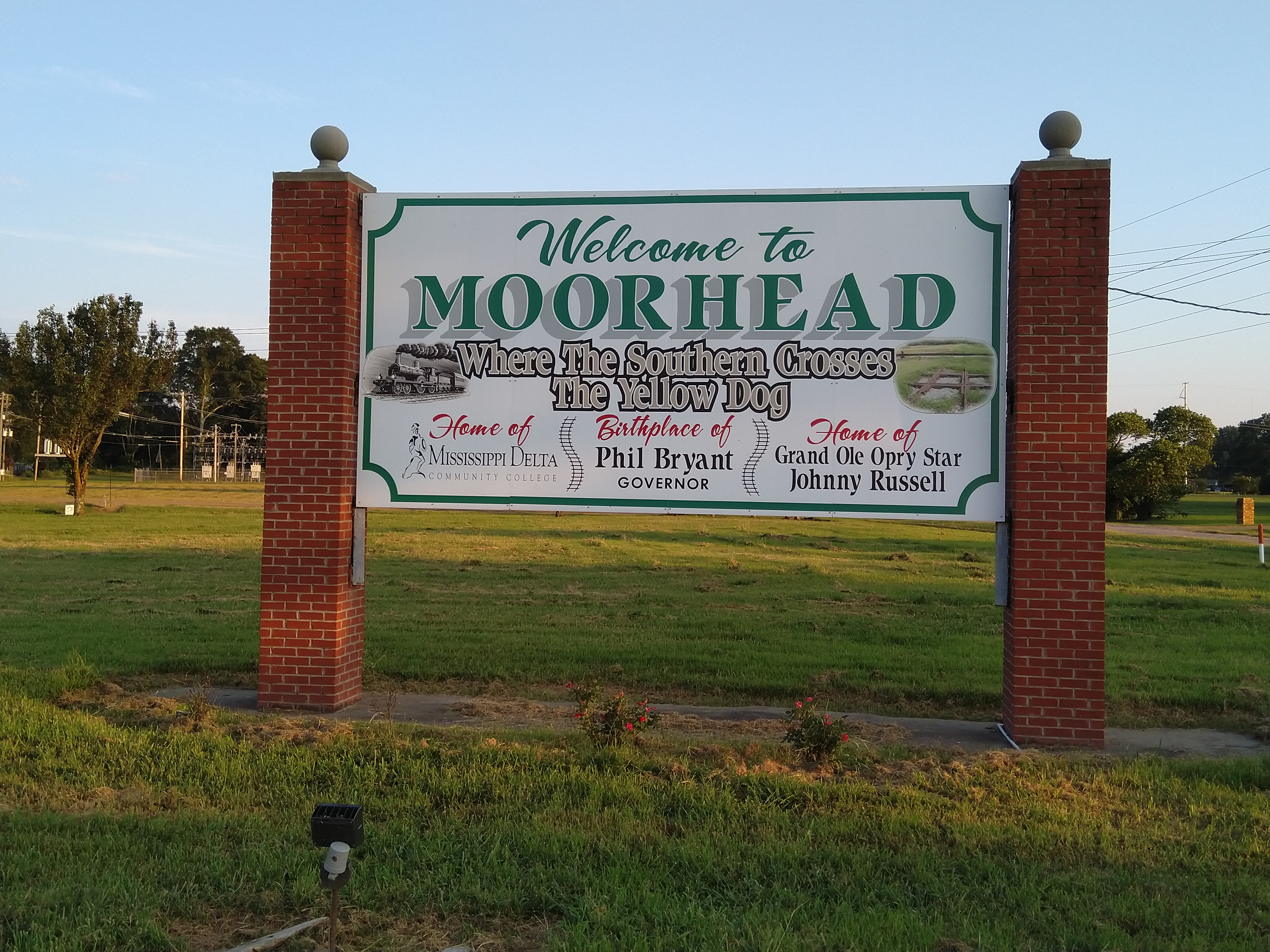 Welcome sign at the intersection of Mississippi Highway 3 and US Highway 82